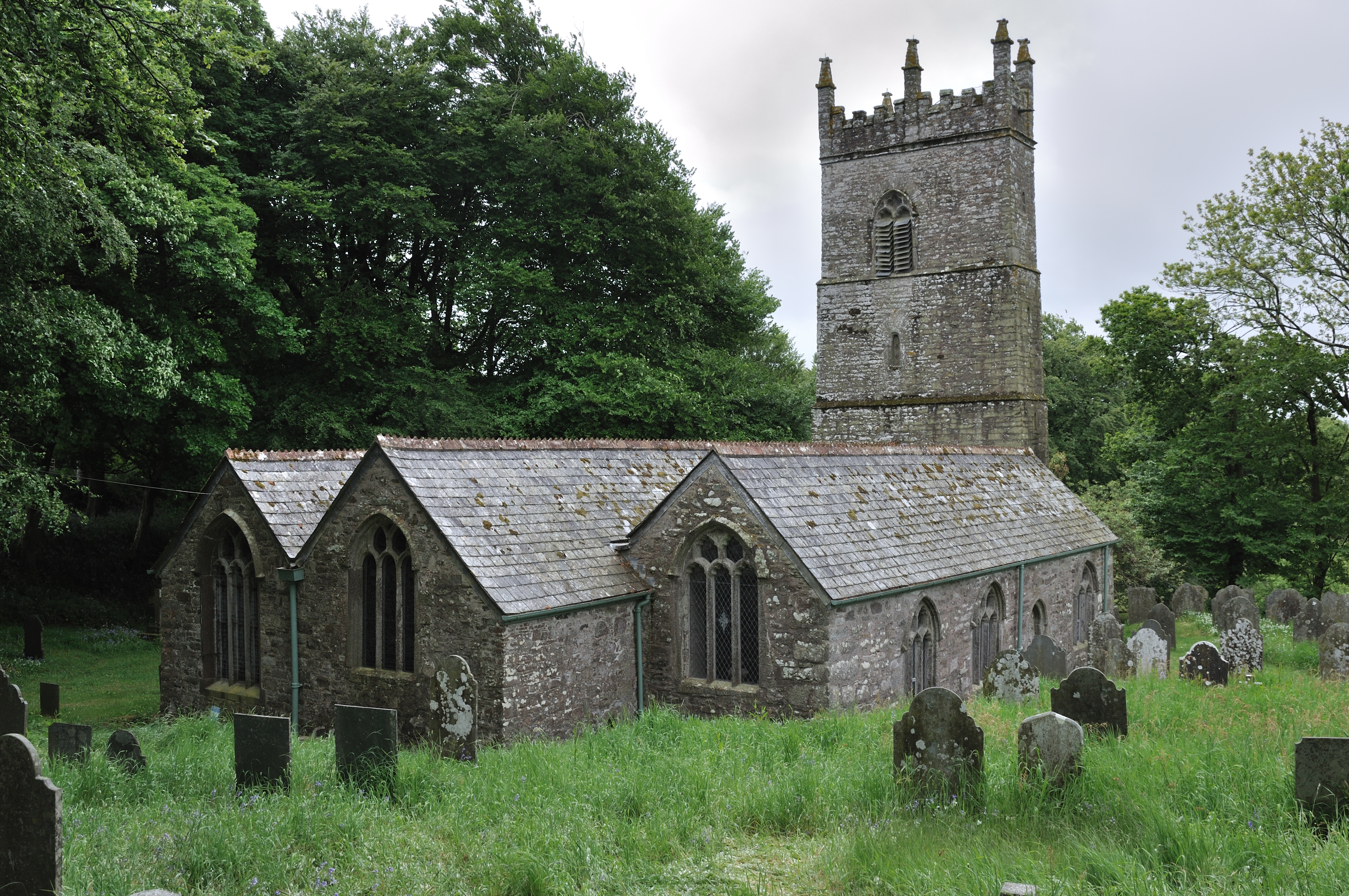 St Michael's parish church, Michaelstow, Cornwall, seen from the north